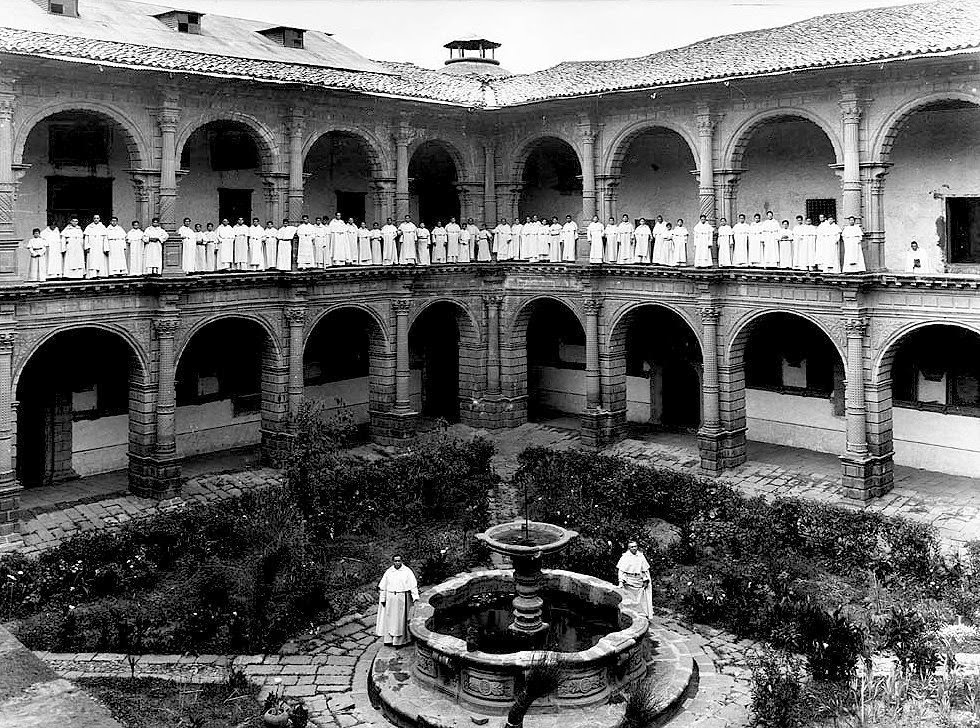 Main cloister of the Basilica of La Merced, Cusco, Peru. Photo of 1920.